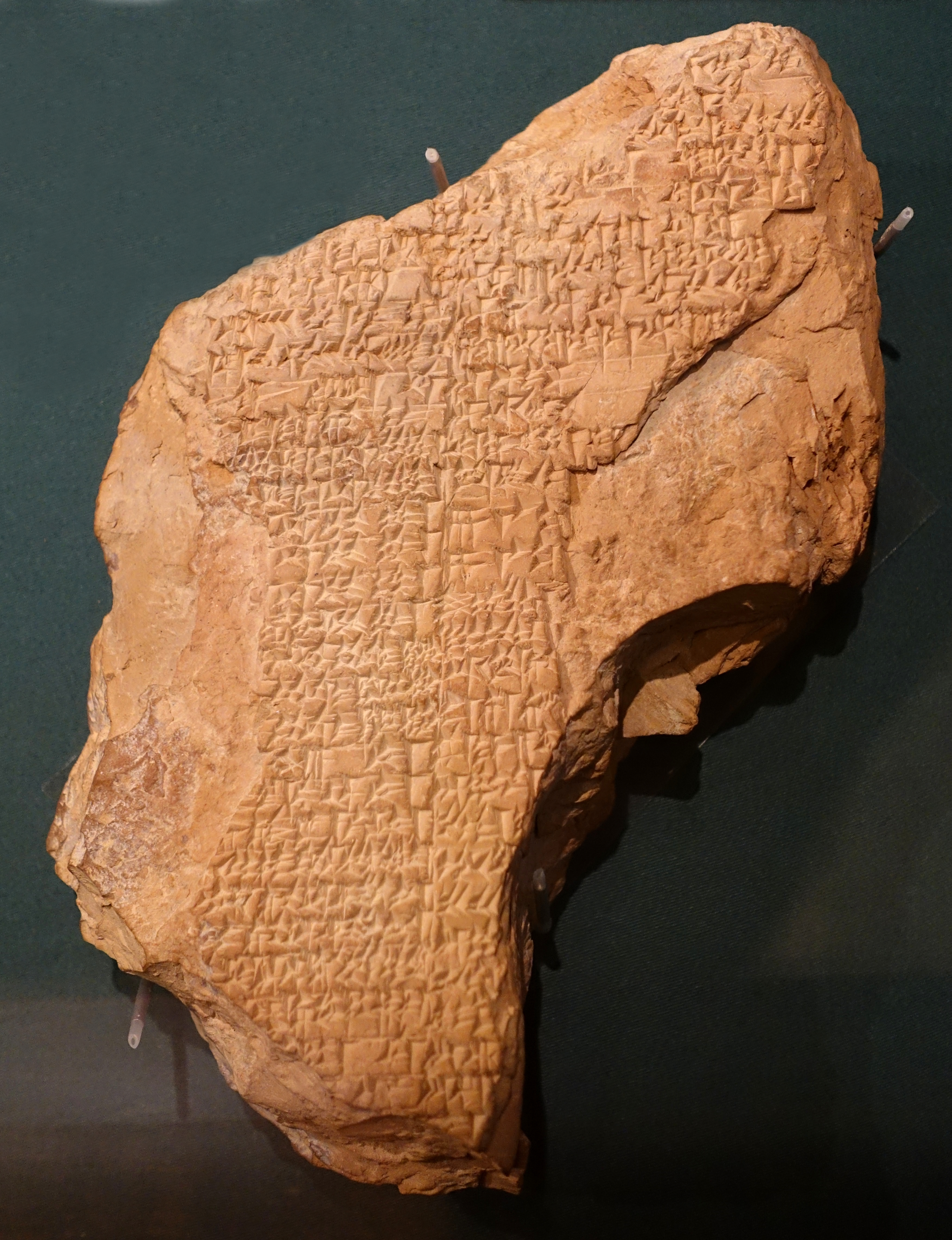 Exhibit in the Oriental Institute Museum, University of Chicago, Chicago, Illinois, USA. This work is old enough so that it is in the public domain. Translation: "As I, Inanna, approached the mountain it showed me no respect, as I approached the mountain range of Ebih it showed me no respect. Since they showed me no respect, since they did not put their noses to the ground for me, since they did not rub their lips in the dust for me, I shall personally fill the soaring mountain range with my terror. Against its magnificent sides I shall place magnificent battering rams . . . . ".